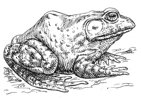 line art drawing